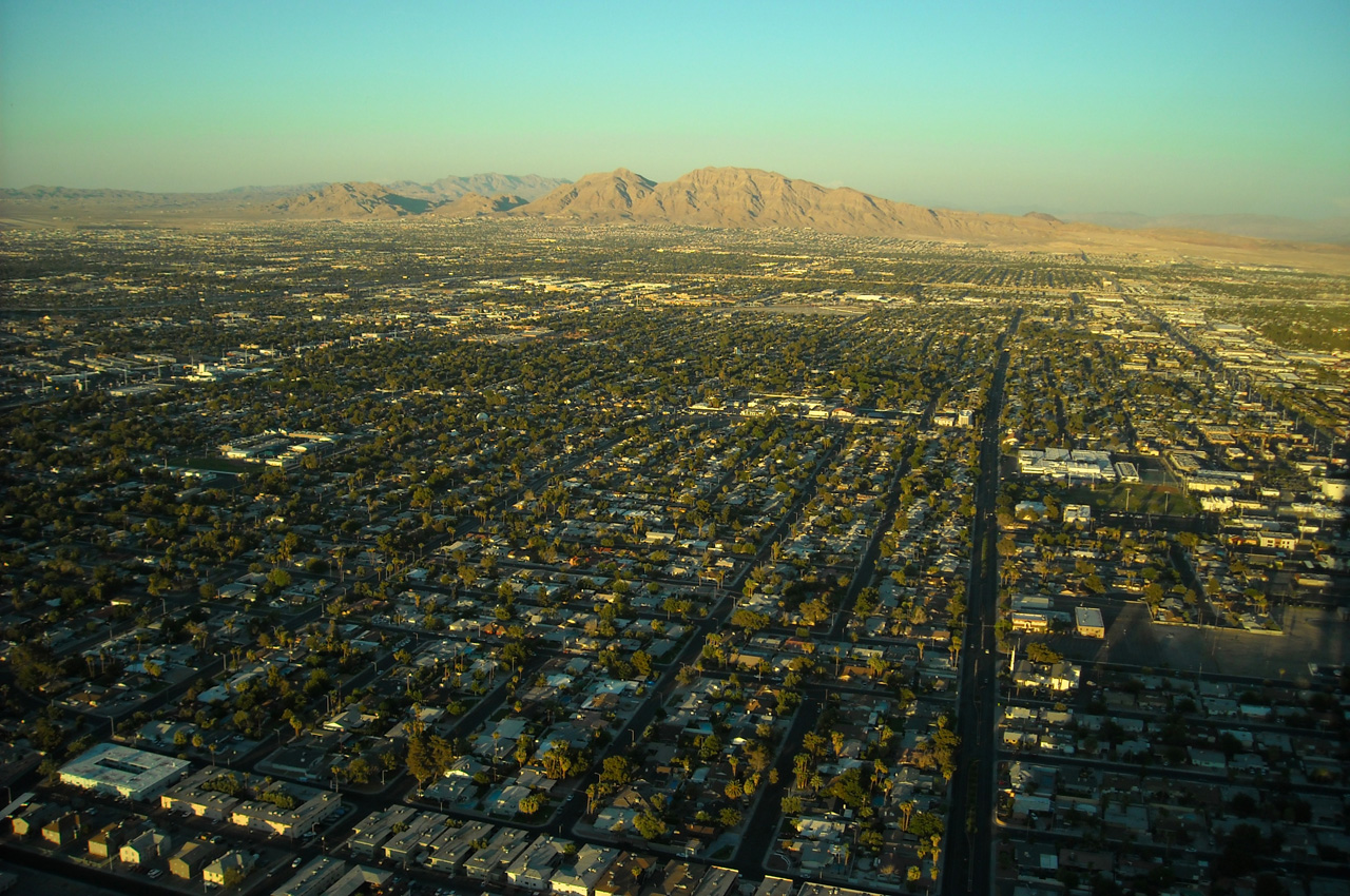 Late afternoon facing towards the Vegas suburbs.